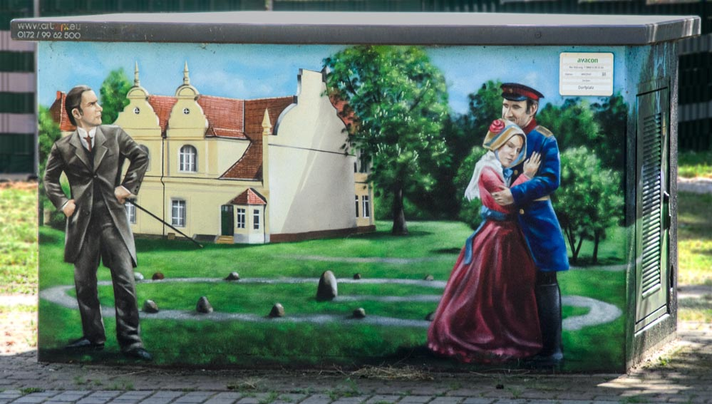 Illustration at the substation on the village square in Zerben